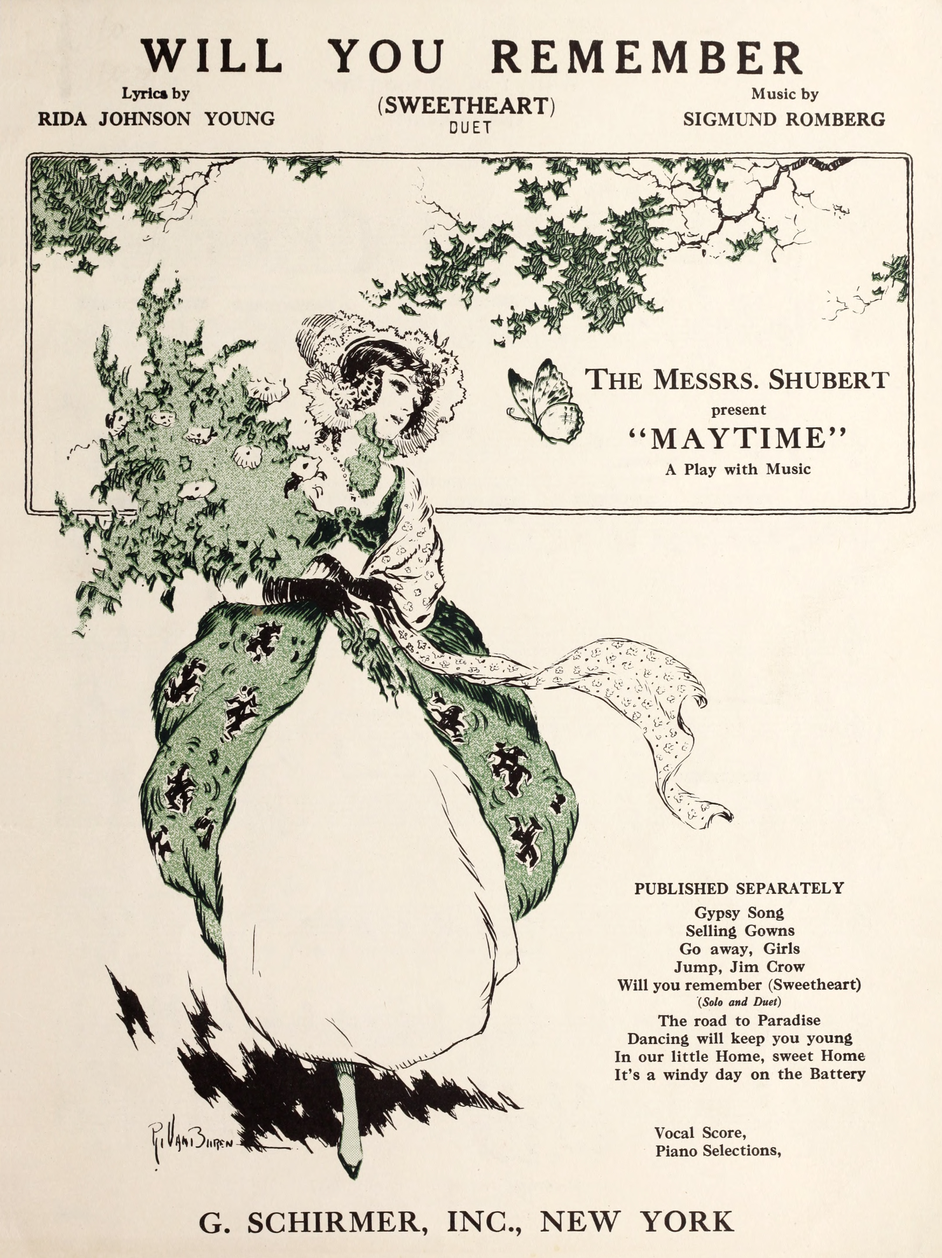 Front cover of the sheet music for "Will You Remember (Sweetheart)", from the musical Maytime